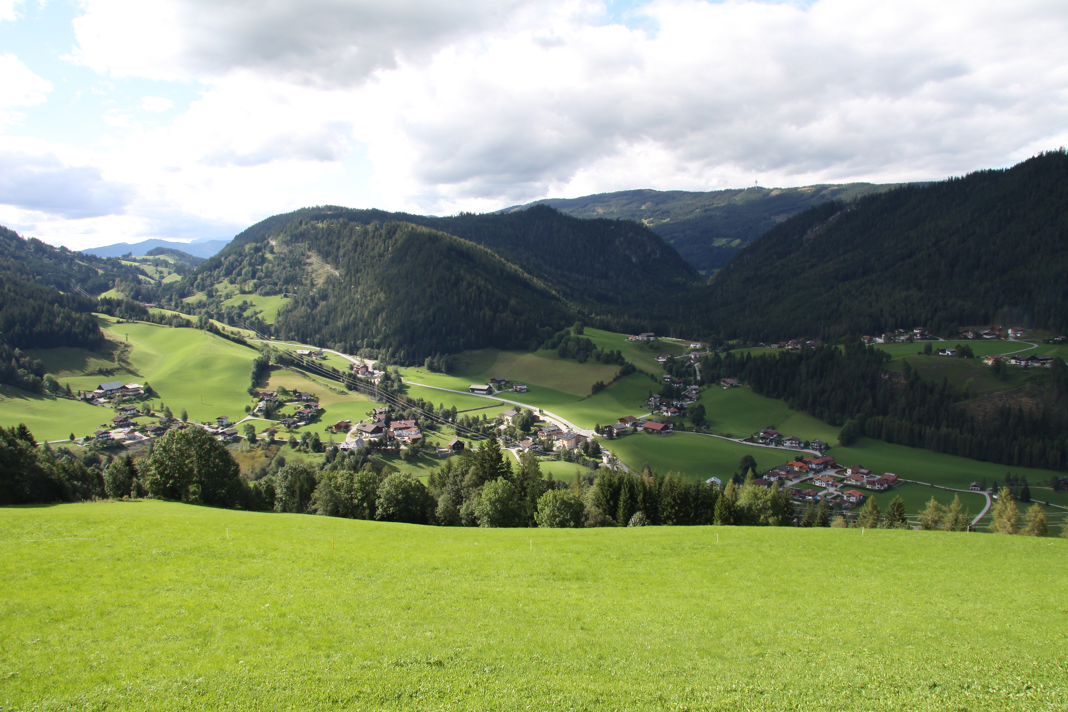 Forstau from above, Austria